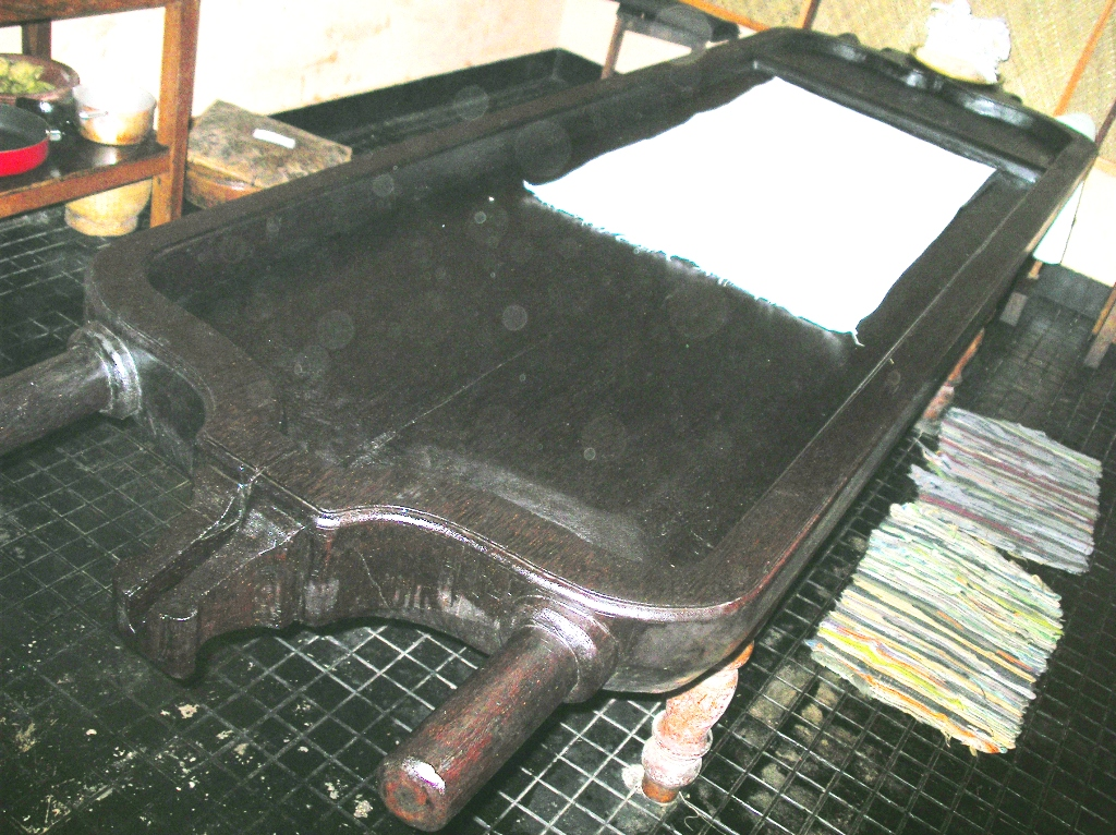 This is the massage table which is typical for Kerala-style Ayurveda - since you get practically immersed in oil, the railing comes handy, as well as the outlet at the feet.